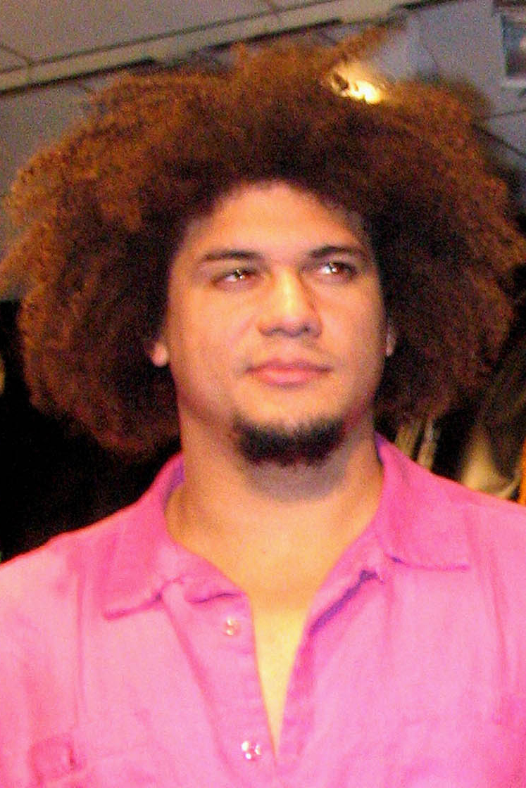 WWE wrestler Carlito at a news conference held at Madison Square Garden, representing WWE for its support of U.S. servicemembers.